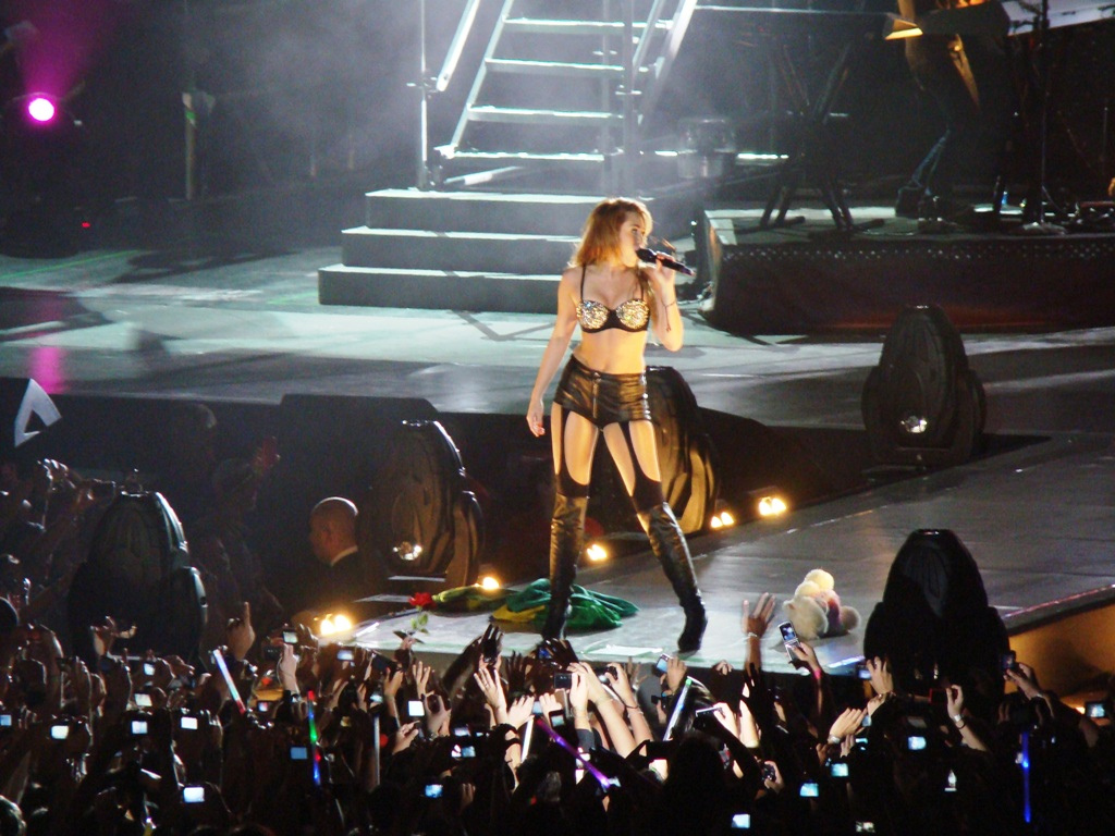 Miley Cyrus singing live in Curicica, Rio de Janeiro, RJ, BR from her tour 'Gypsy Heart'